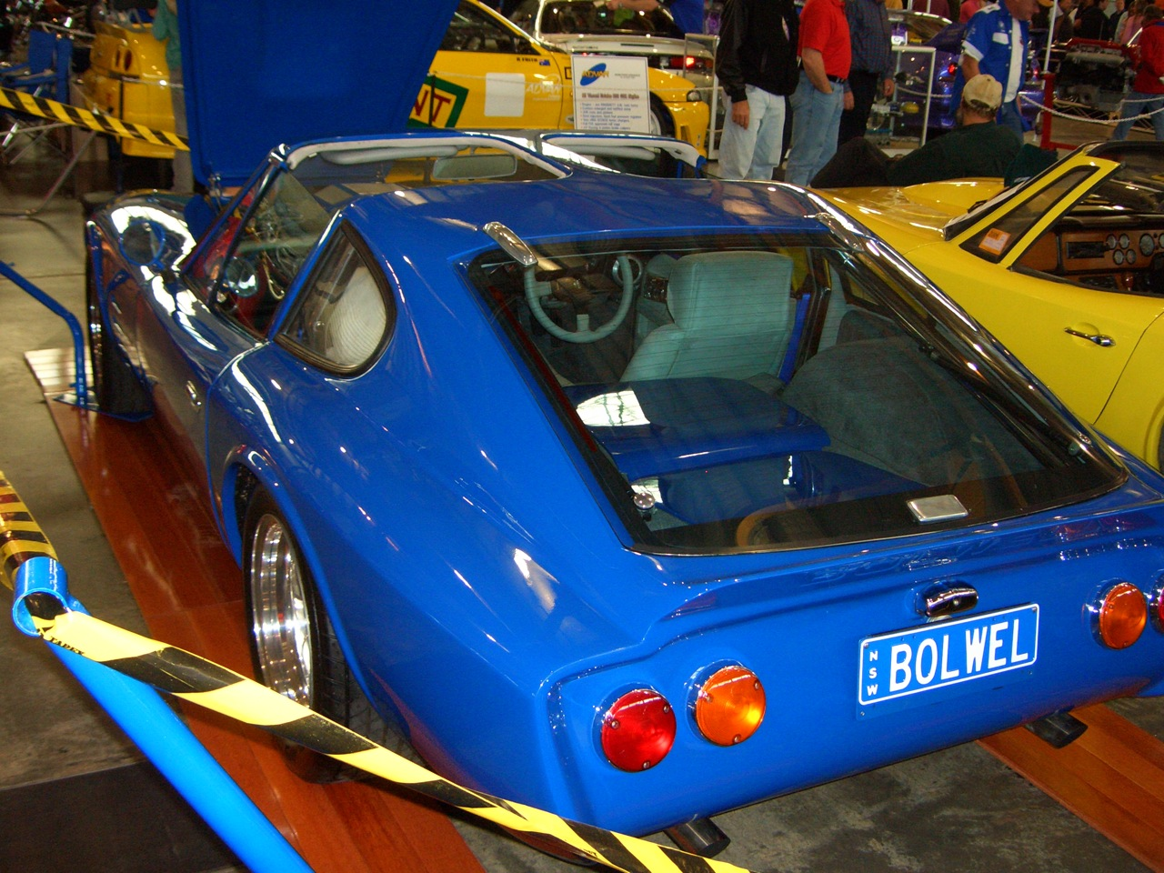 A Bolwell Mk VII.